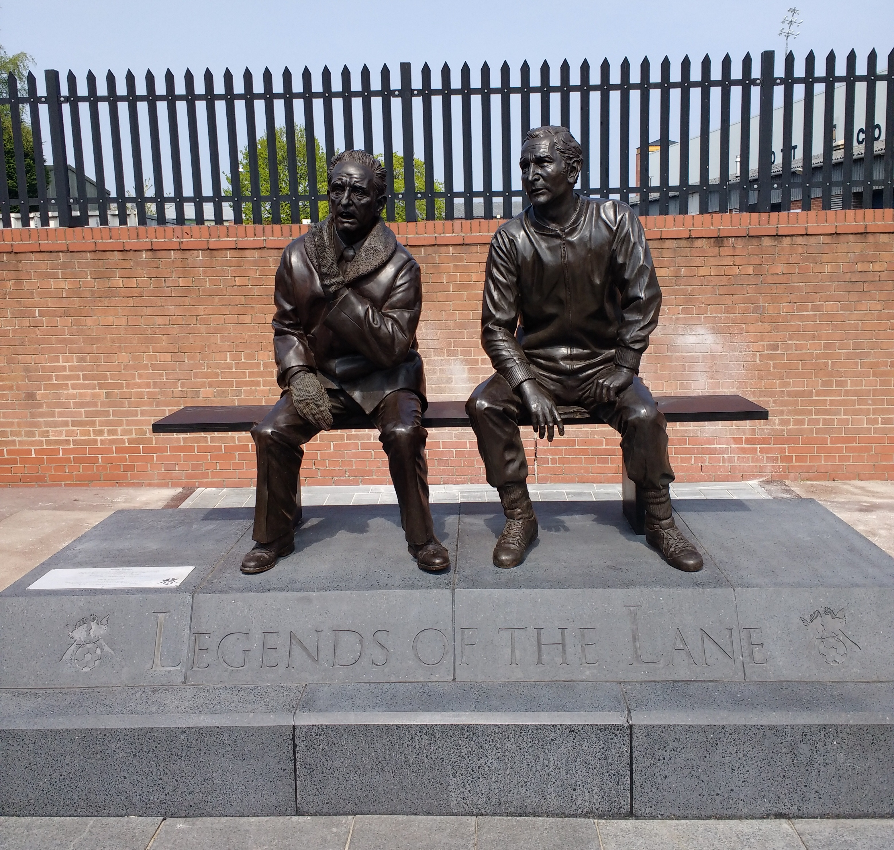 Statue of Jimmy Sirrel and Jack Wheeler manager and coach of Notts County FC in the 1970's and 1980's. Situated on Meadow Lane near Notts County football stadium.